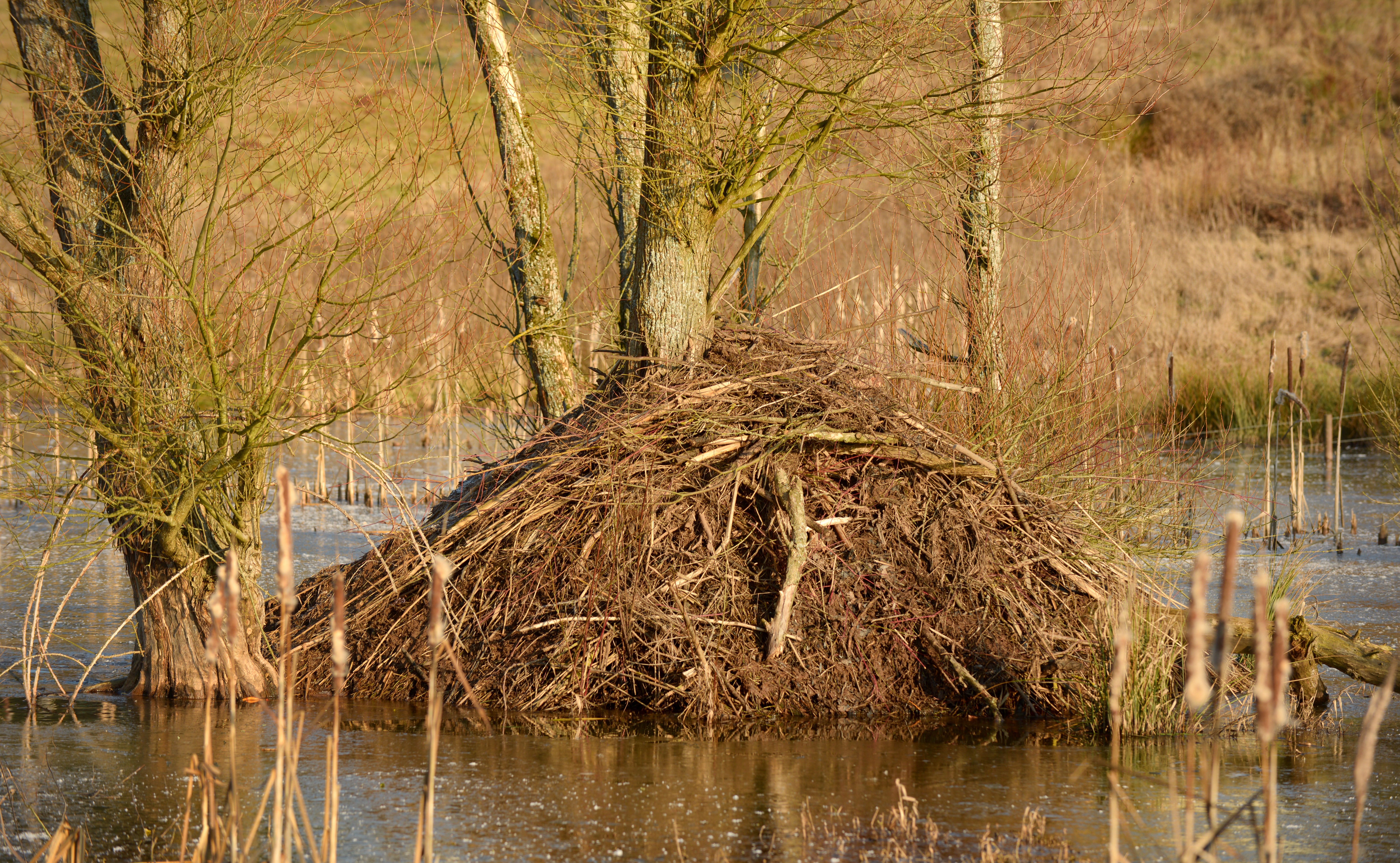 Castor fiber lodge on dammed water surface at the Merch in Merchweiler, Saarland/ Germany (2019).